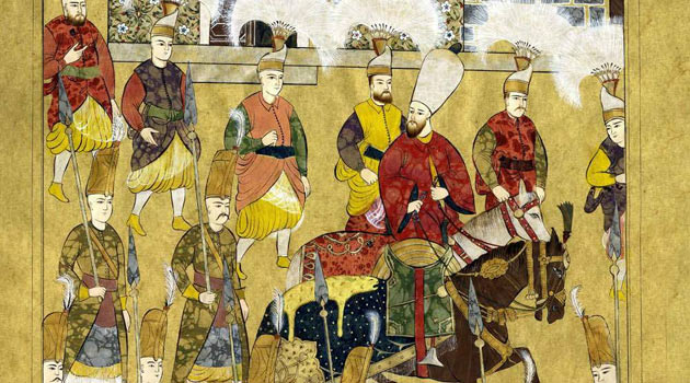 Pirî Mehmed Çelebi(?-1532)